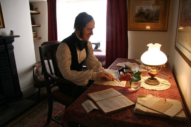 Charles Kingsley Victorian clergyman, author and social reformer Charles Kingsley was inspired to write his most famous novel 'The Water Babies' by his boyhood experiences at Clovelly whilst his father was Rector here. This reconstruction depicts him in his study in the Kingsley Museum at Clovelly